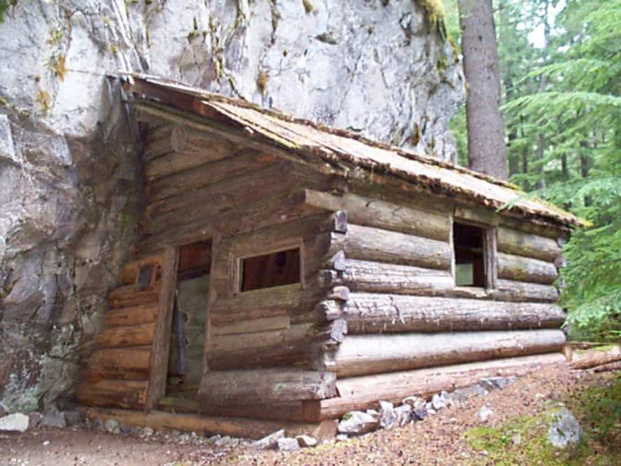 Rock Cabin in North Cascades National Park, Skagit County, Washington, USA